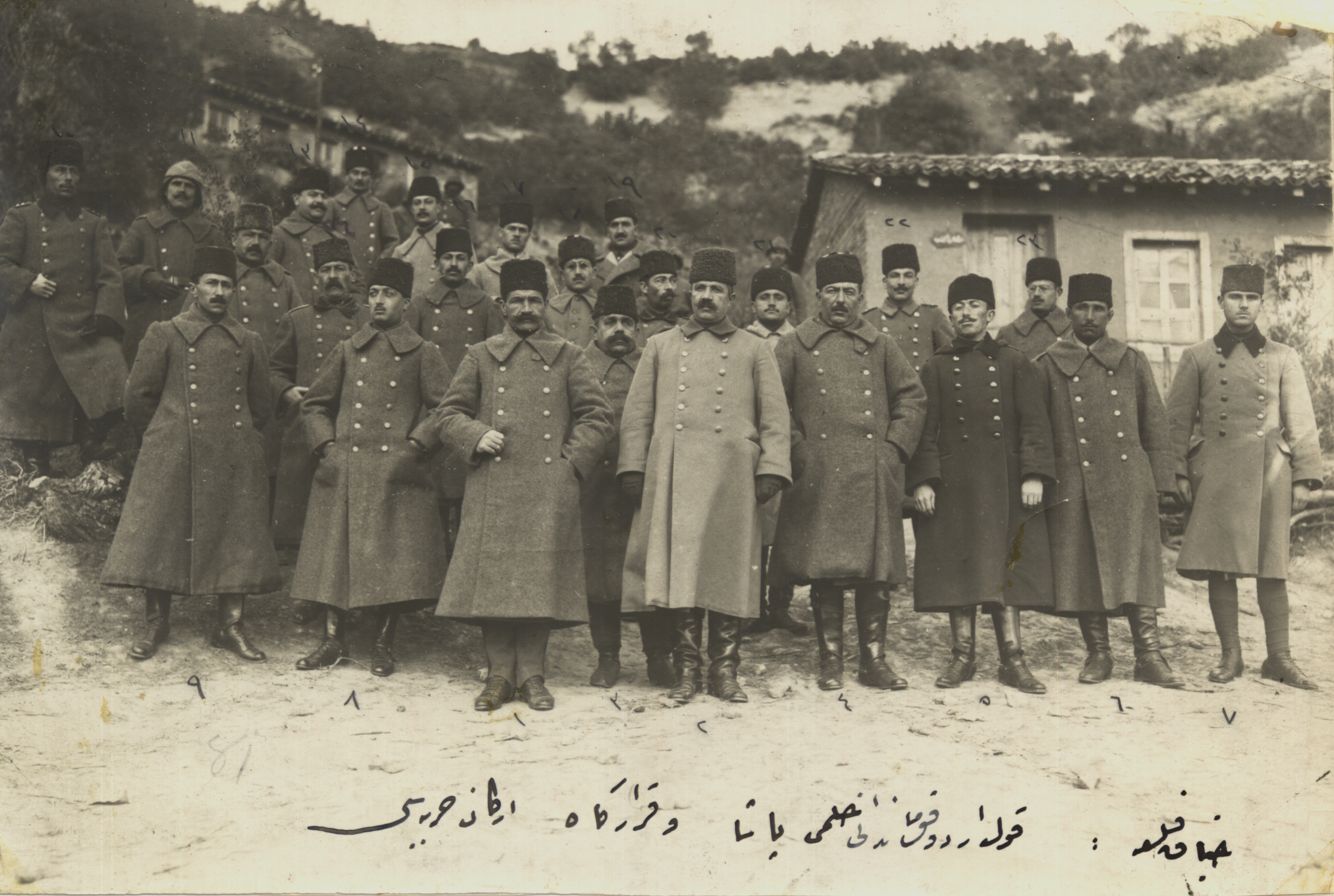 Commander of the Ottoman VI Corps Mirliva Mustafa Hilmi Pasha and his staff officers